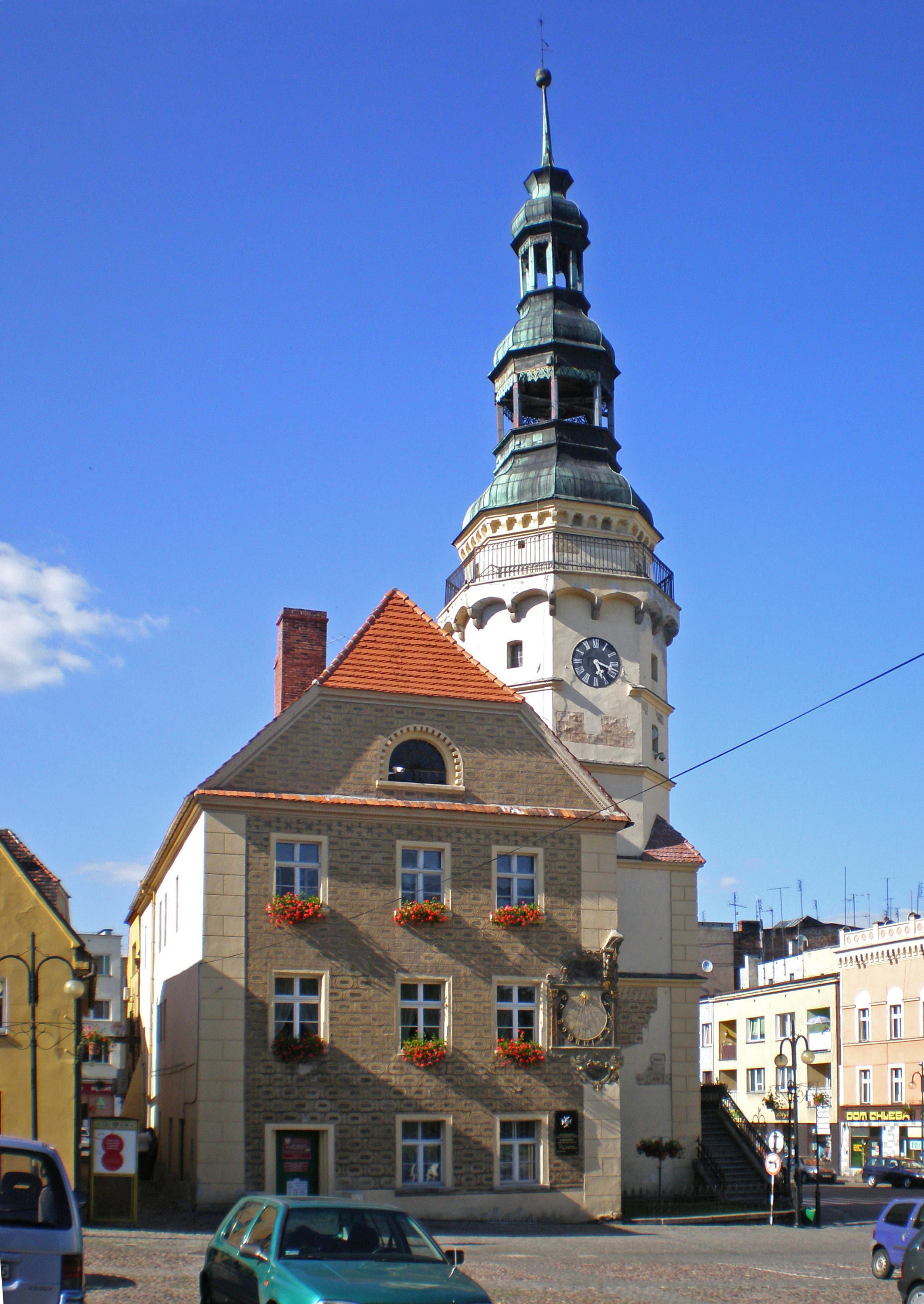 Town hall in Otmuchow